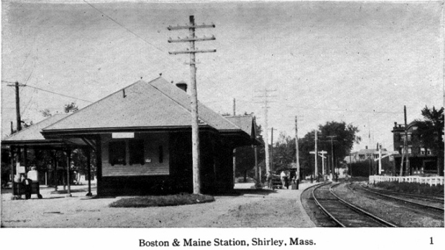 Early undivided-back postcard of the Boston and Maine Railroad station at Shirley, Massachusetts